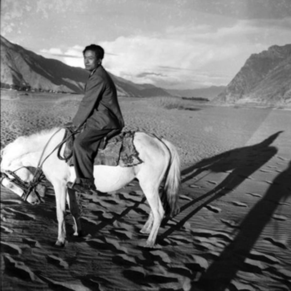 Nepalese merchant Pratek Man Tuladhar somewhere in Tibet, ca 1940s.